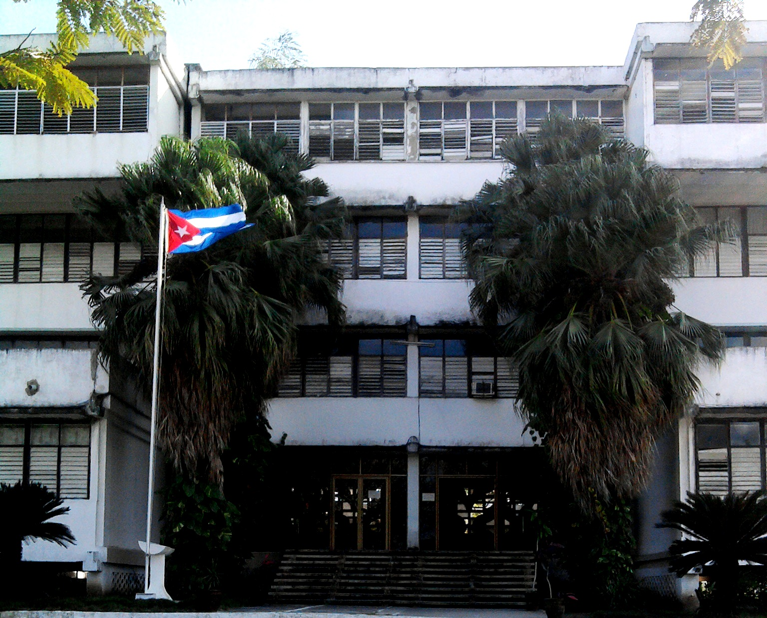 Main entrance of FCM Sancti Spiritus(Devised by ciclone) This image is free to be used for any purpose.